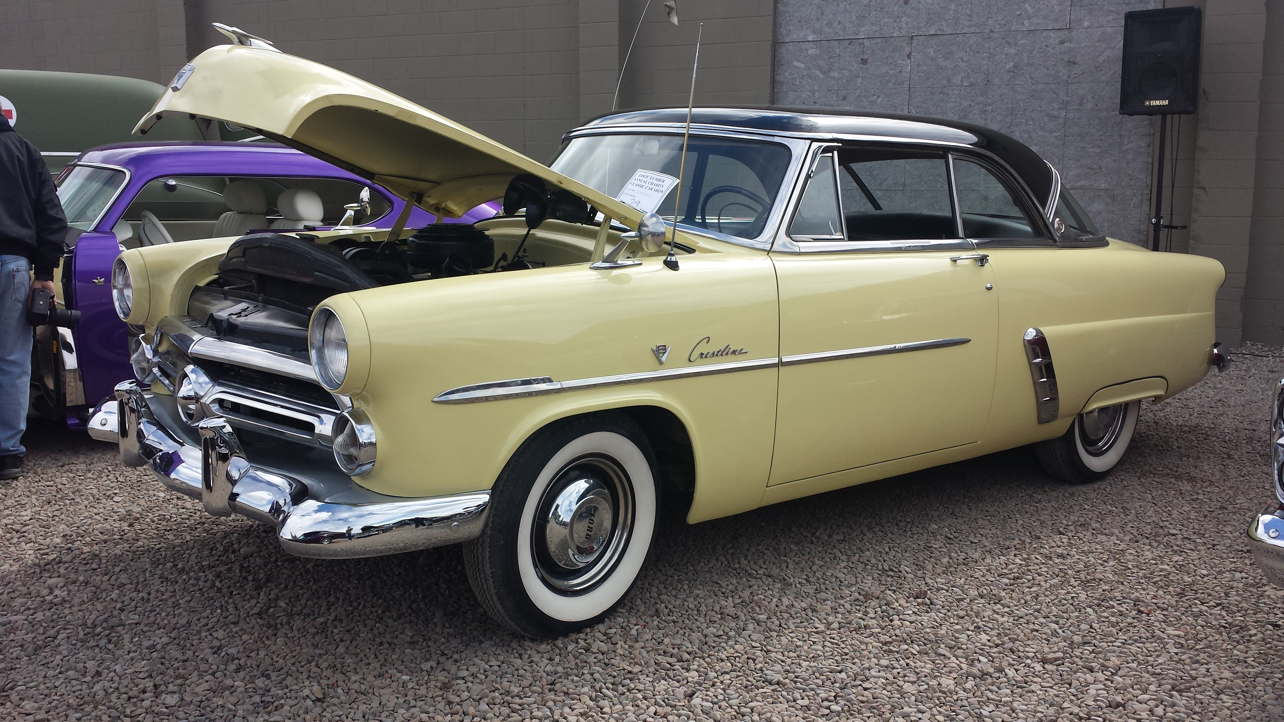 1952 Ford Victoria